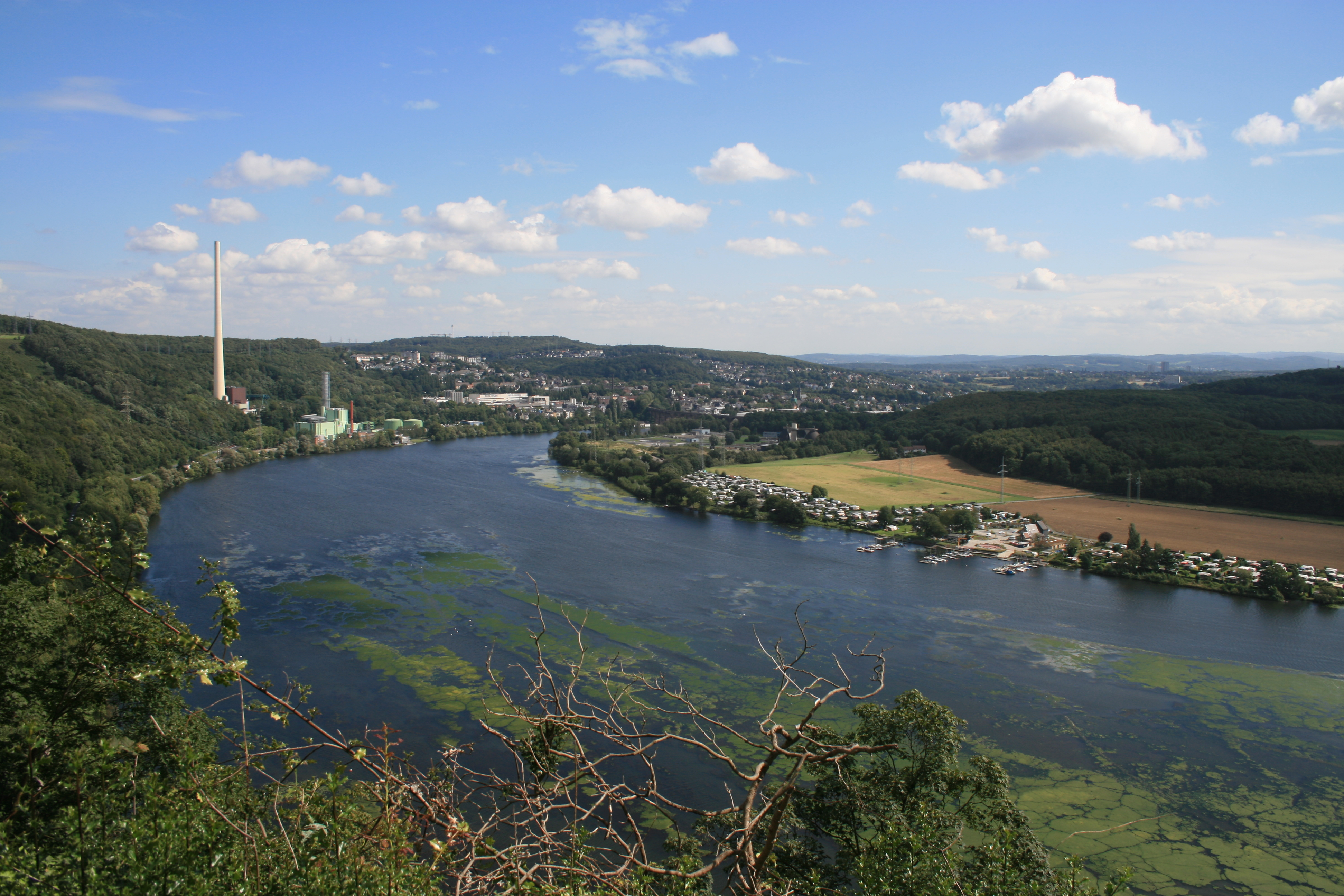 Harkortsee - Wetter/Ruhr